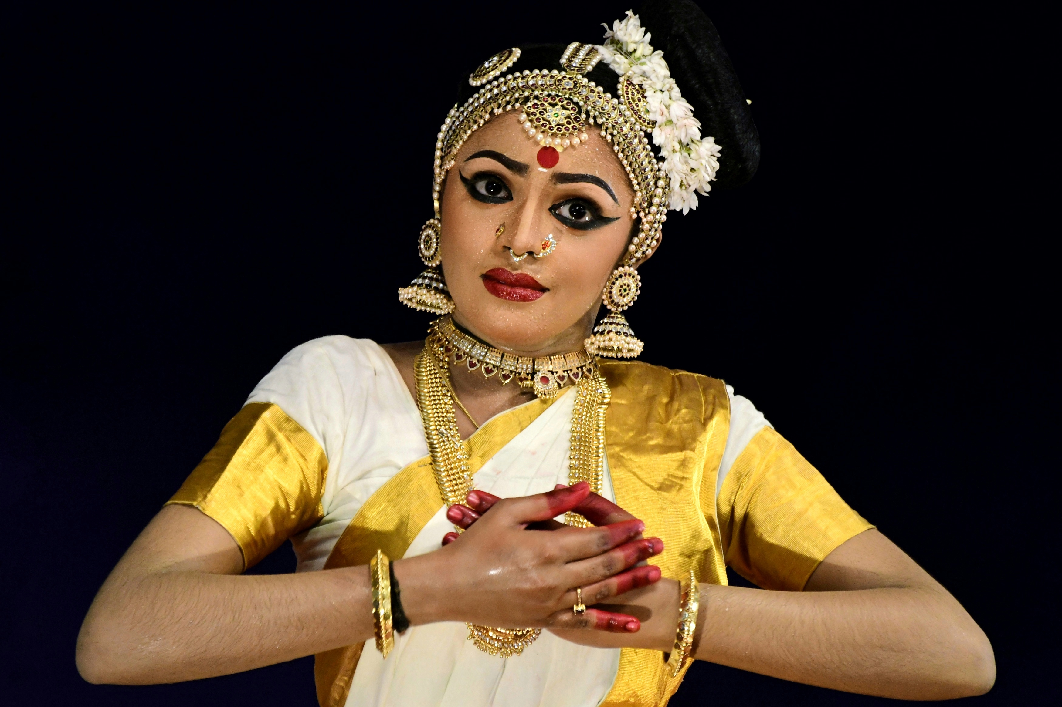 Mohiniyattam is a traditional art form of Kerala